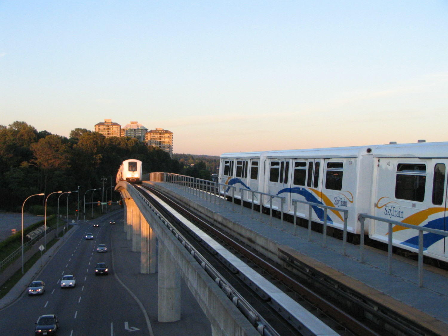 This image was created by me, Flying Penguin of Pacific Spirit Photography ( of Burnaby, BC, Canada